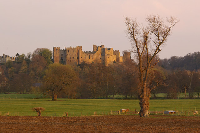 Ludlow Castle Looking towards Ludlow Castle from near Burway Farm, with a low evening sun casting a red light on the scene.